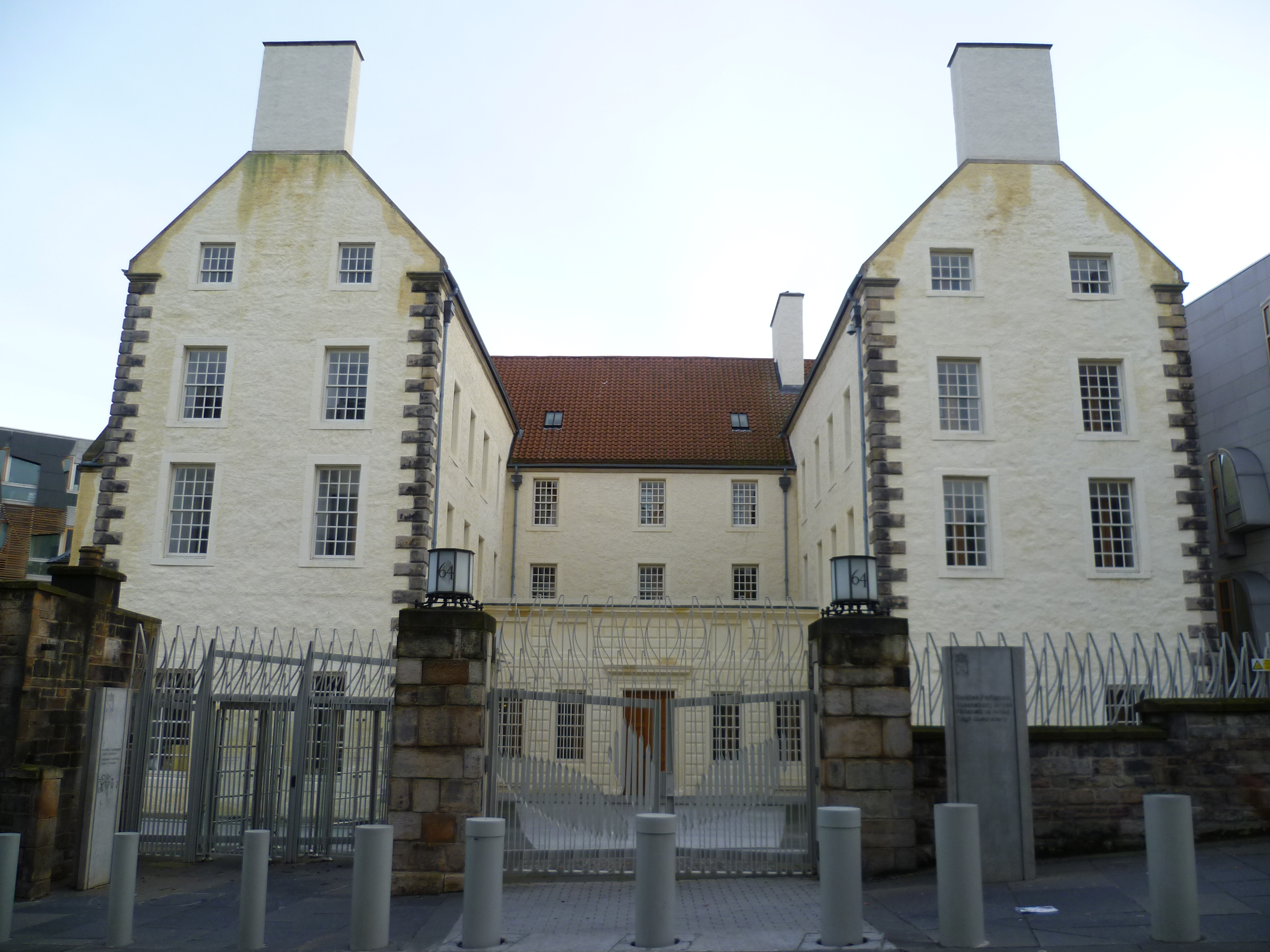 One of the grandest of the Canongate's mansions, built in 1681 in the reign of Charles II by the 3rd earl of Lauderdale. It then passed to the 1st Duke of Queensberry, whose family owned it until 1803. The 2nd Duke incurred the odium of the Edinburgh mob for the leading part he played as a Commissioner entrusted with the passage of the Act of Union through the Scottish Parliament. A story attaches to the house, that while the Duke was fully occupied with the affairs of state, his unattended, congenitally insane heir murdered a servant boy by roasting him on a fireplace spit. John Gay of 'The Beggar's Opera' fame stayed here as a guest of Lady Catherine Hyde, 3rd Duchess (1700-177) and patron of the arts. In 1745, the officers of General Cope's army, captured by the Jacobites at the Battle of Prestonpans, were held here for several days before being released on parole. In more recent times the building became a House of Refuge for the Destitute. The Edinburgh judge, Henry Cockburn, lamented the decline of what "was once the brilliant abode of rank and fashion and political intrigue". It remained a refuge, in a very run-down condition, until the Scottish Parliament annexed and renovated it as offices.